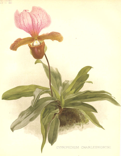 Paphiopedilum charlesworthii